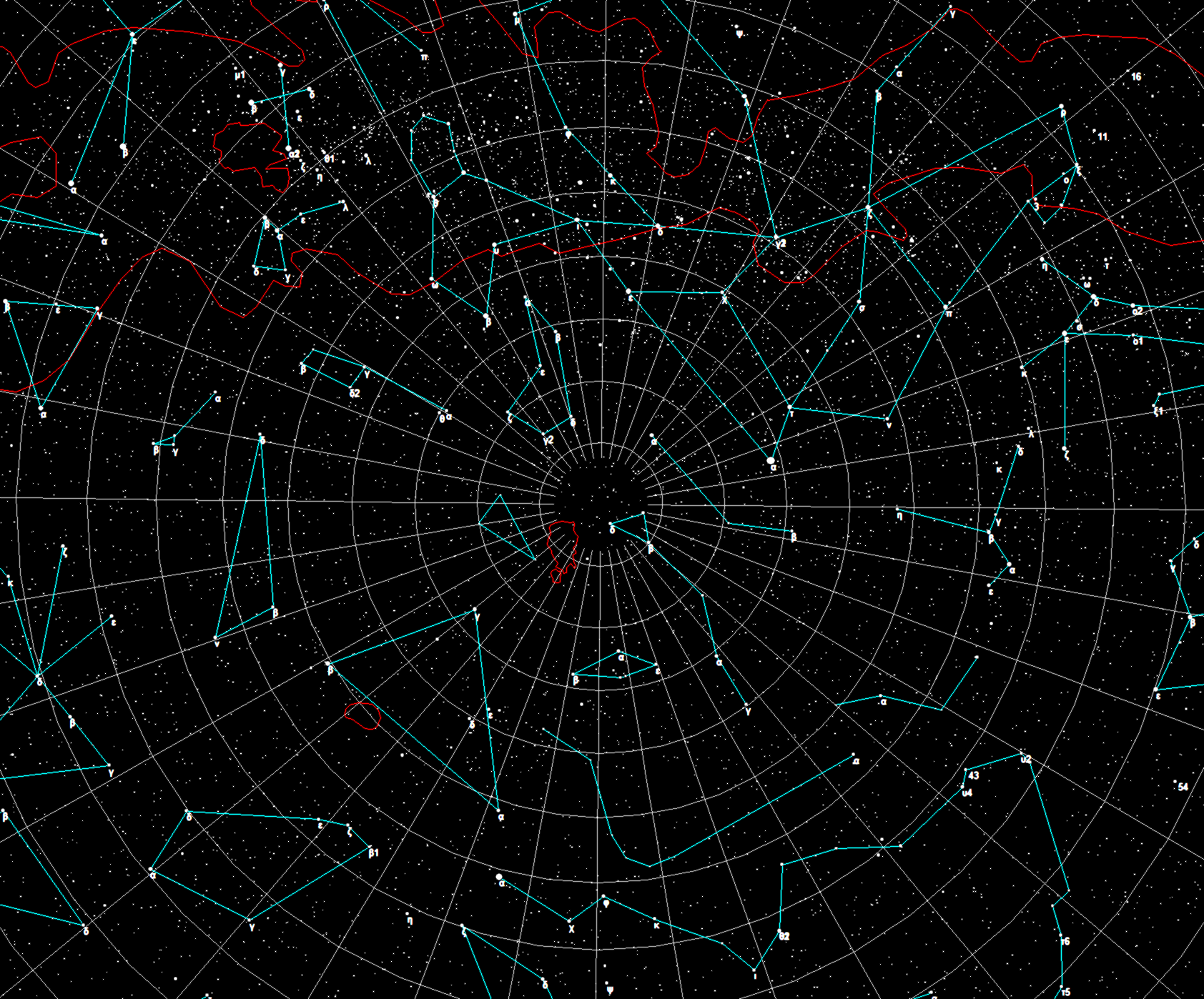 Star chart of south ecliptic pole